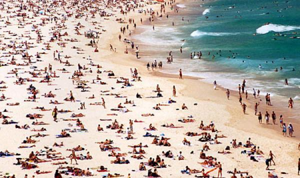 Beach in Prymorske, Kiliya Raion